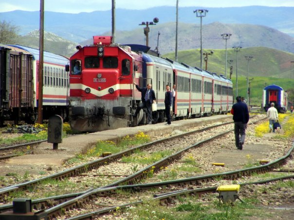 A train waiting at Irmak railway station.